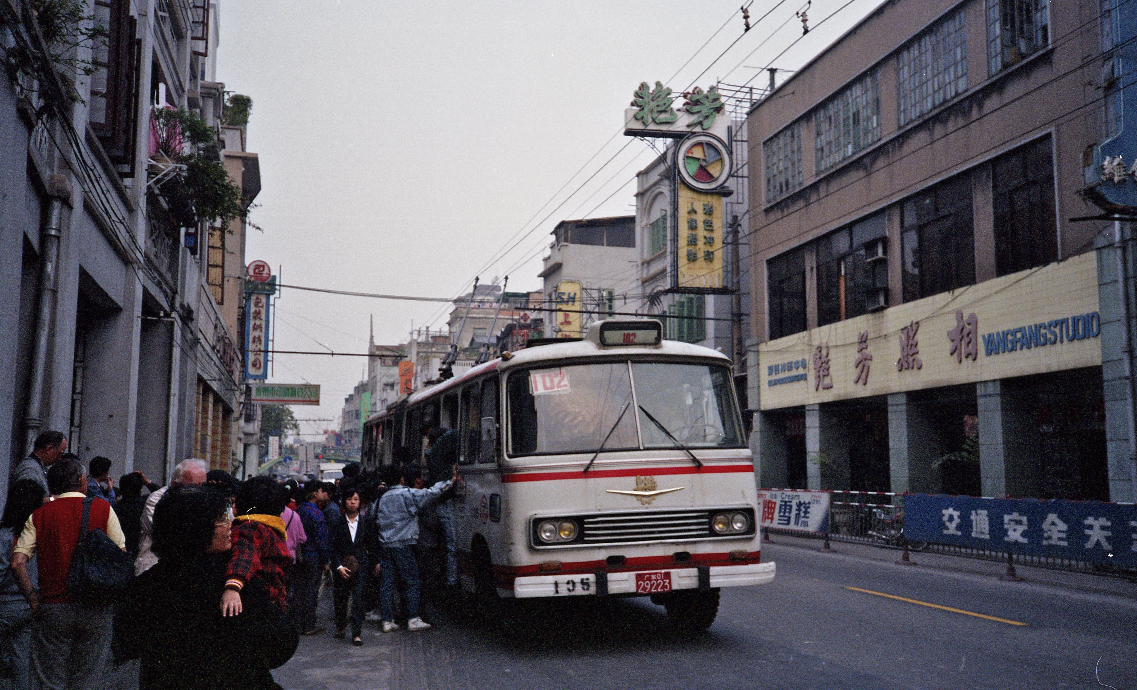 Guangzhou, China, trolleybus 135, a Shanghai-built SK561G, loading at a stop in the street, on route 102, in 1991.